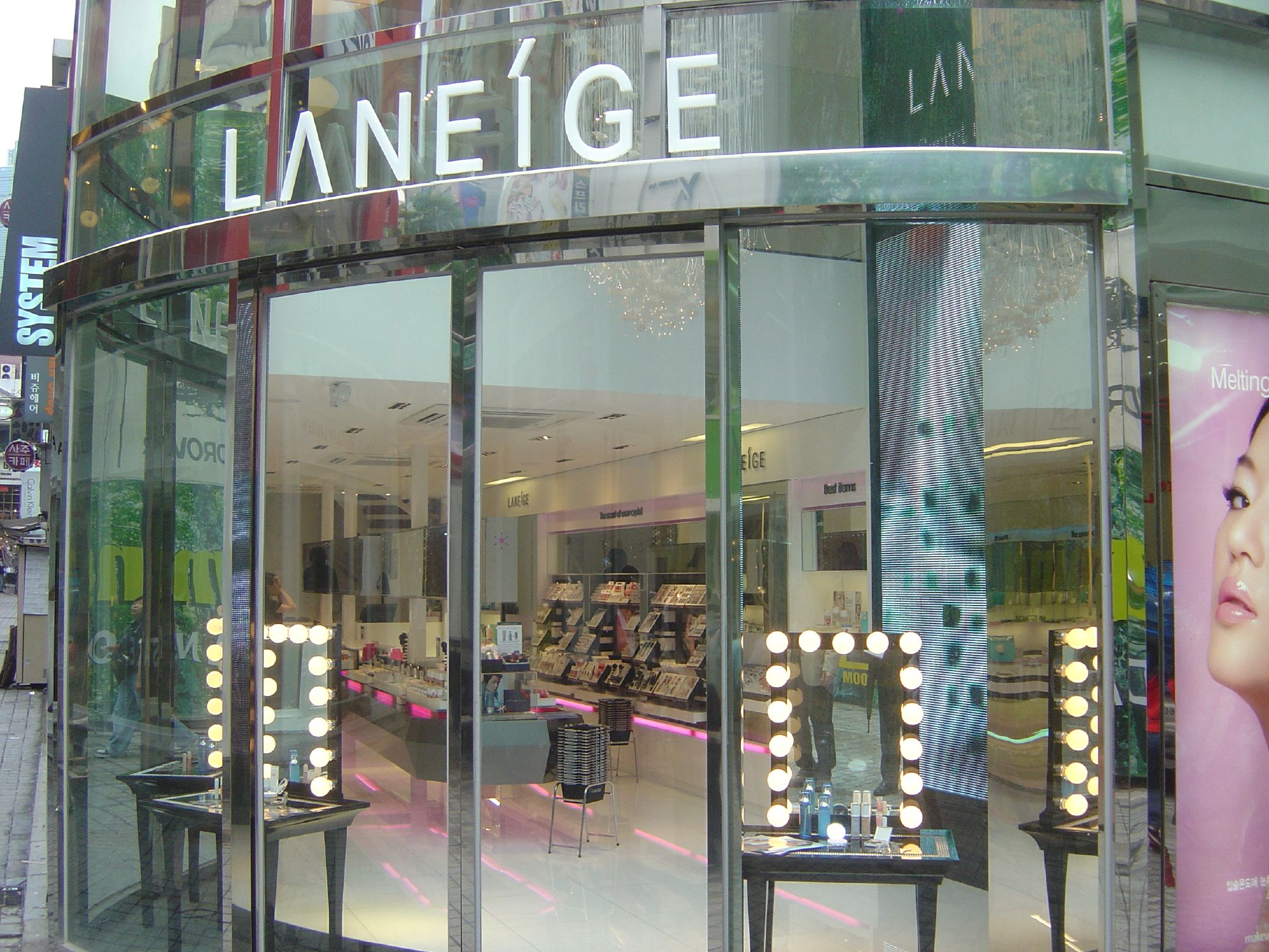 A Laneige storefront in Seoul, South Korea in June 2007, with their logo prominently displayed and a view of their product offerings.